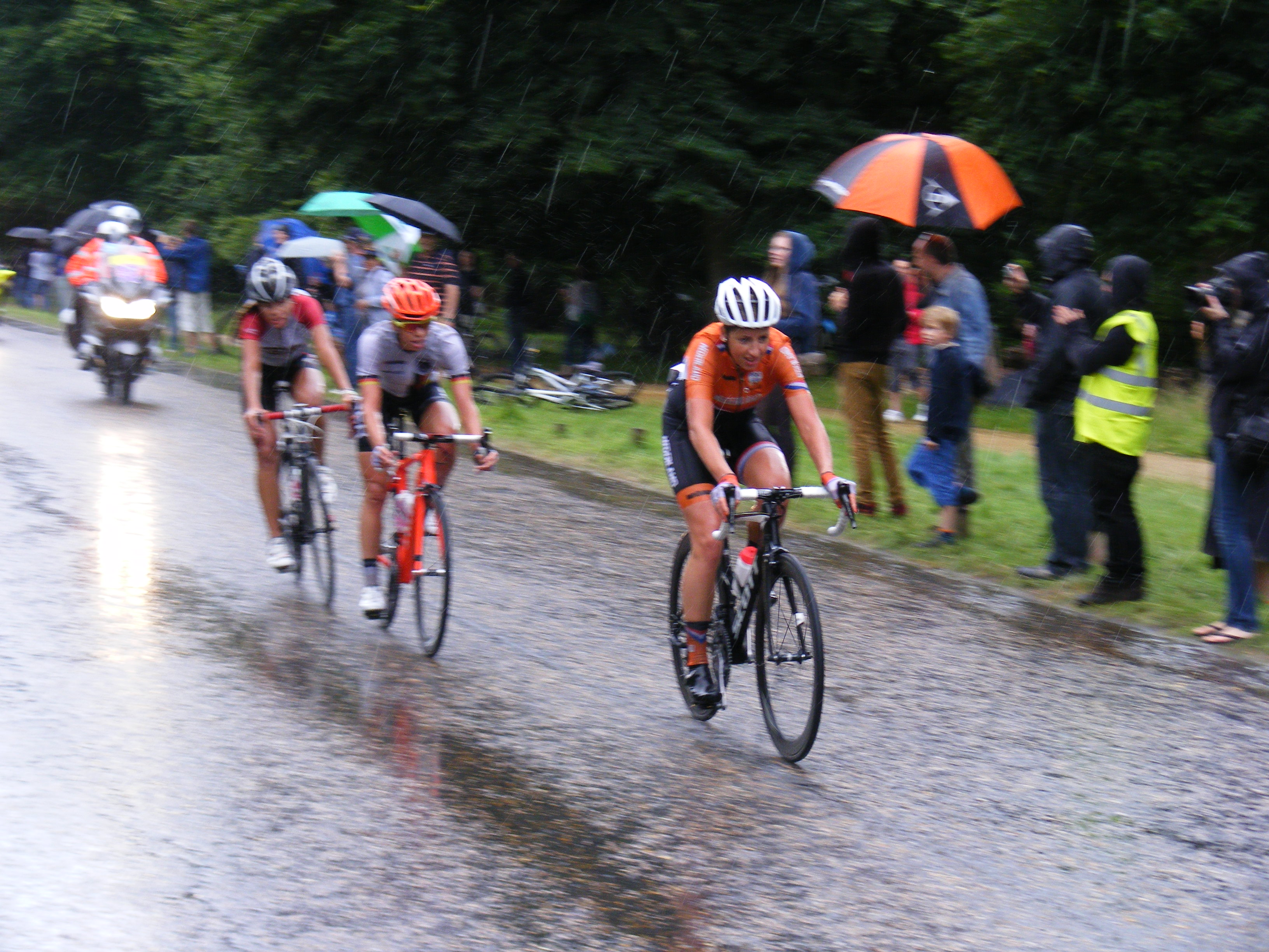 Dropped riders women's olympic cycling road race Dutch and , German riders